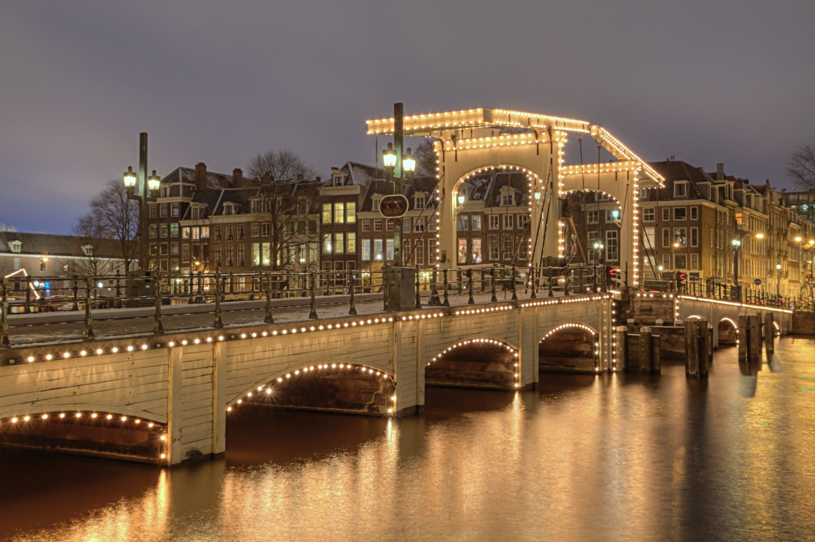 Magere Brug ("Skinny Bridge") is a bridge over the Amstel River in Amsterdam, NL. HDR shot from 3 exposures with +/-2 EV brackets.